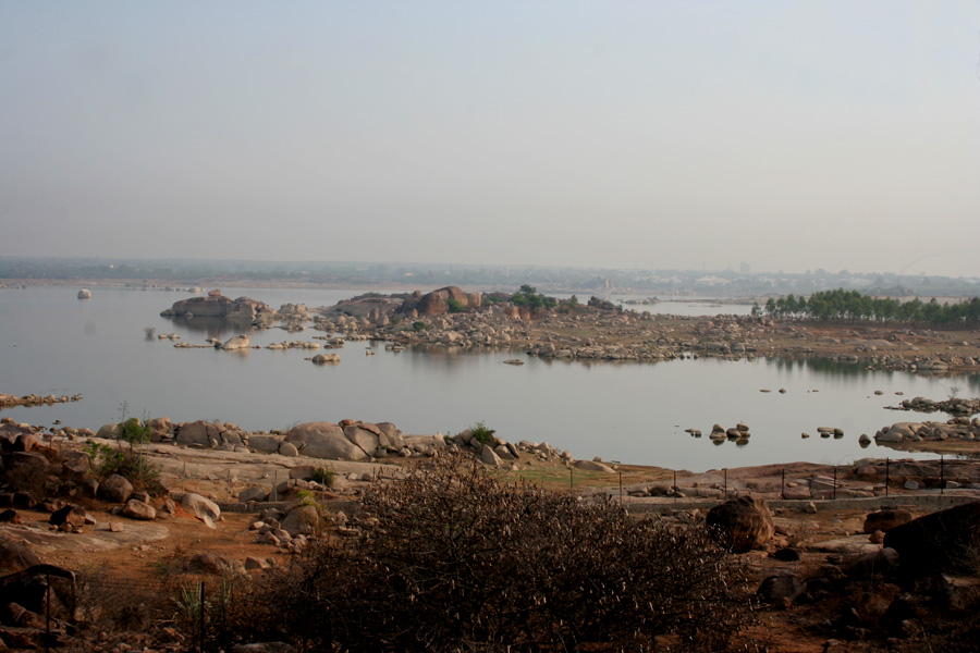 Shamirpet Lake in Shamirpet, Rangareddy district, Andhra Pradesh, India.